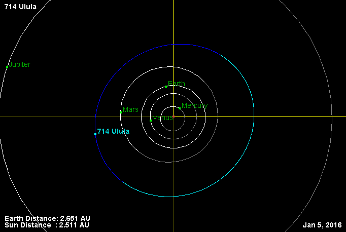 Orbit of asteroid 714 Ulula and his location in Solar system